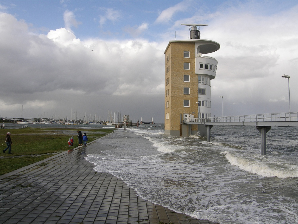 Cuxhaven